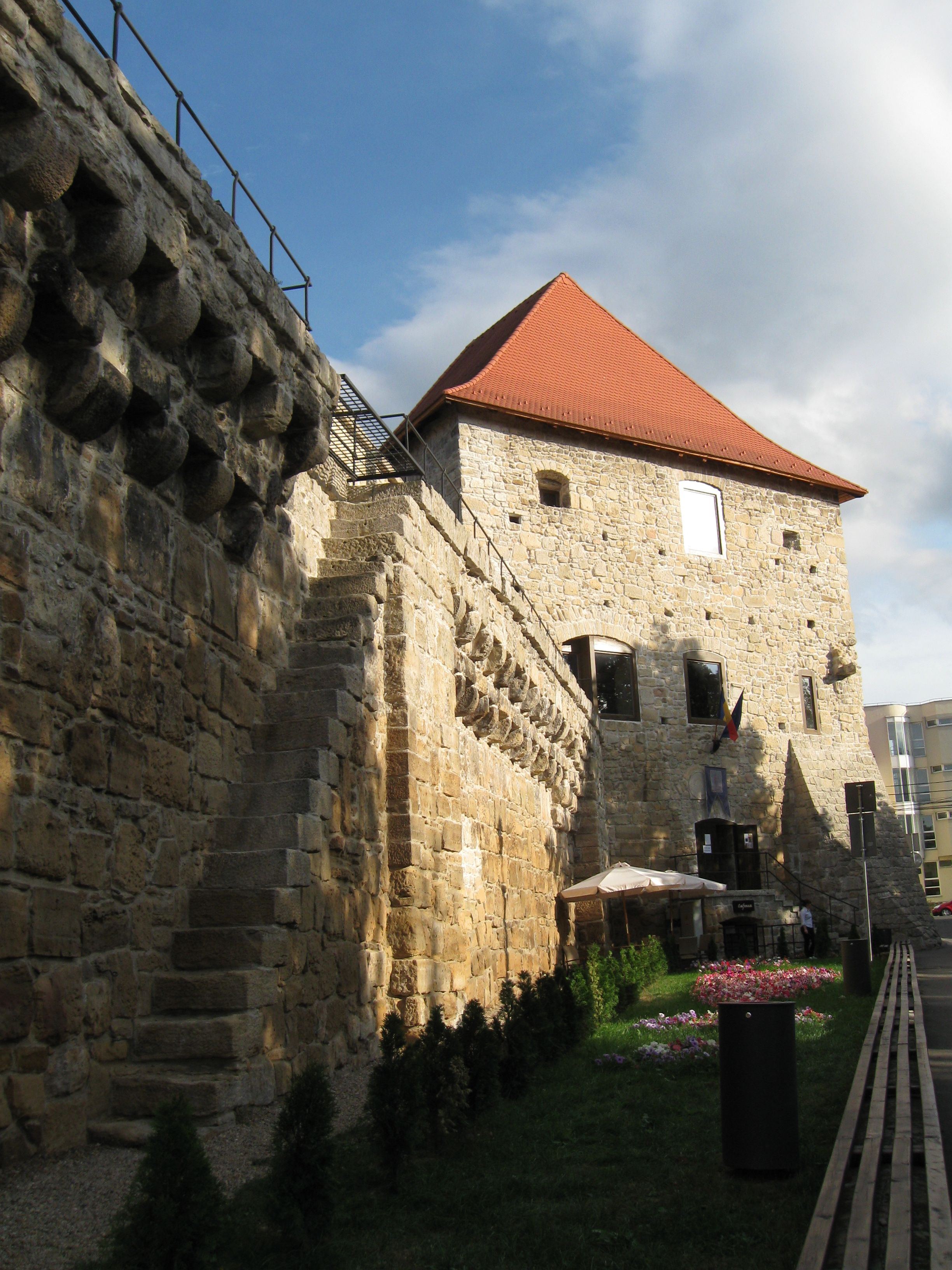 Tailors' Bastion & a fragment of Cluj's defensive walls.